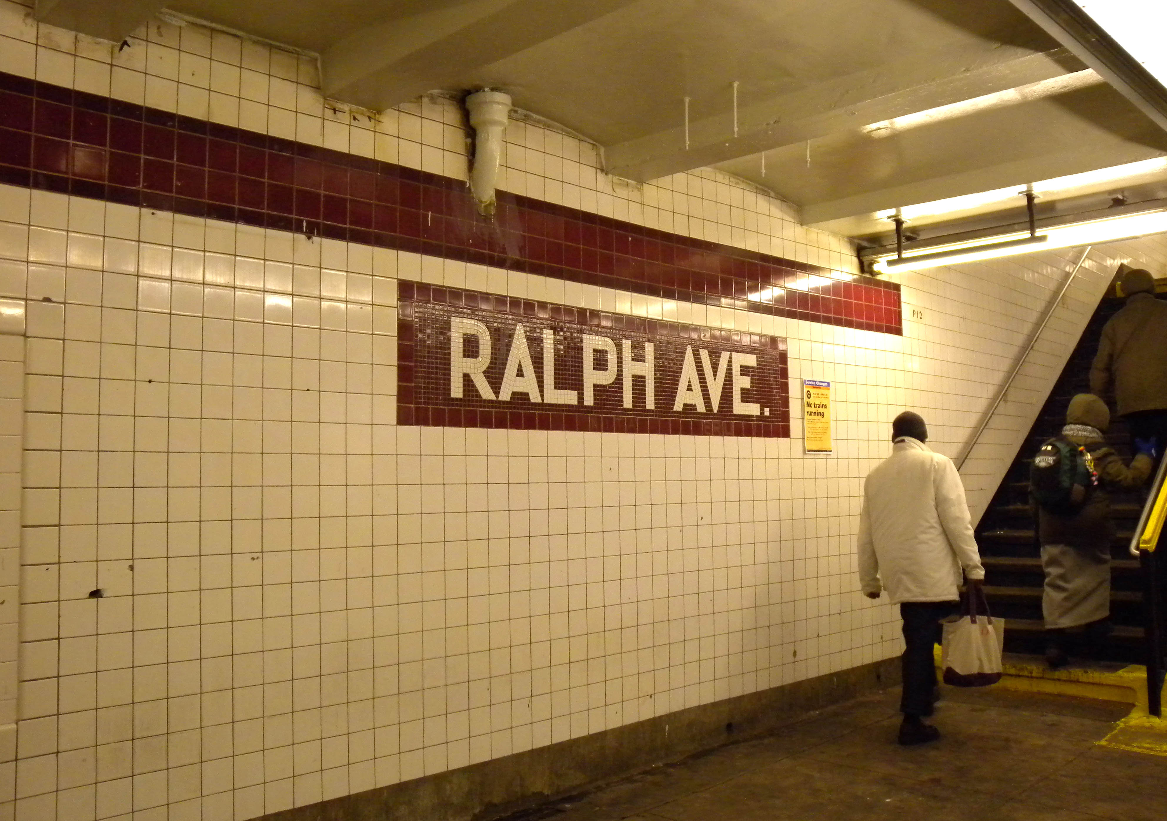 Looking northeast out the door of a westbound A train at Ralph Avenue station platform.